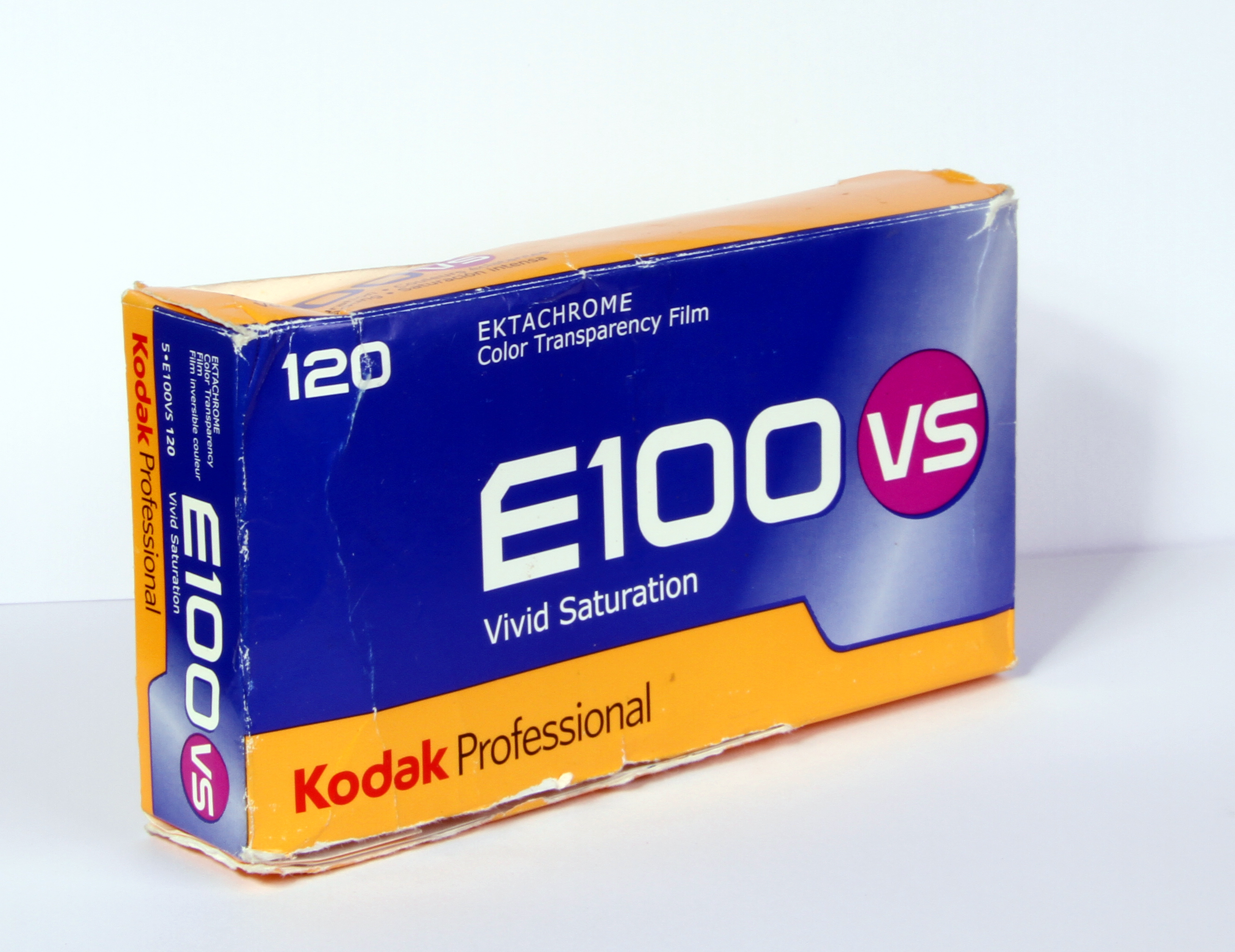 120 Kodak Slide